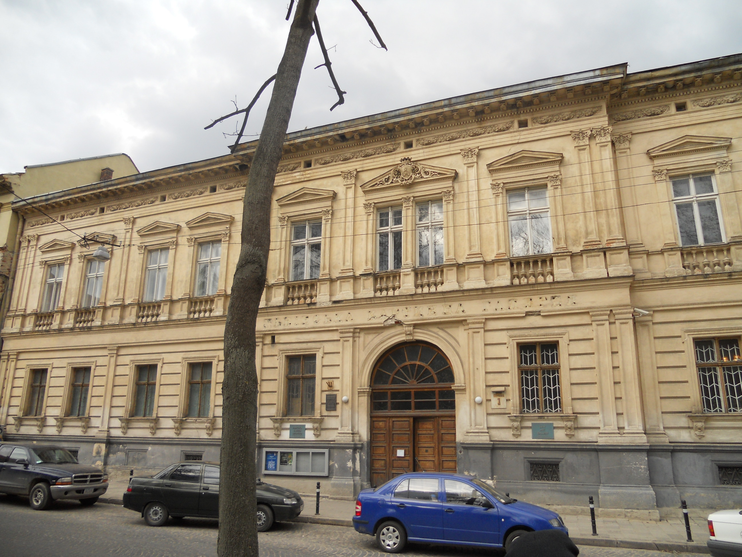 Lviv National Art Gallery